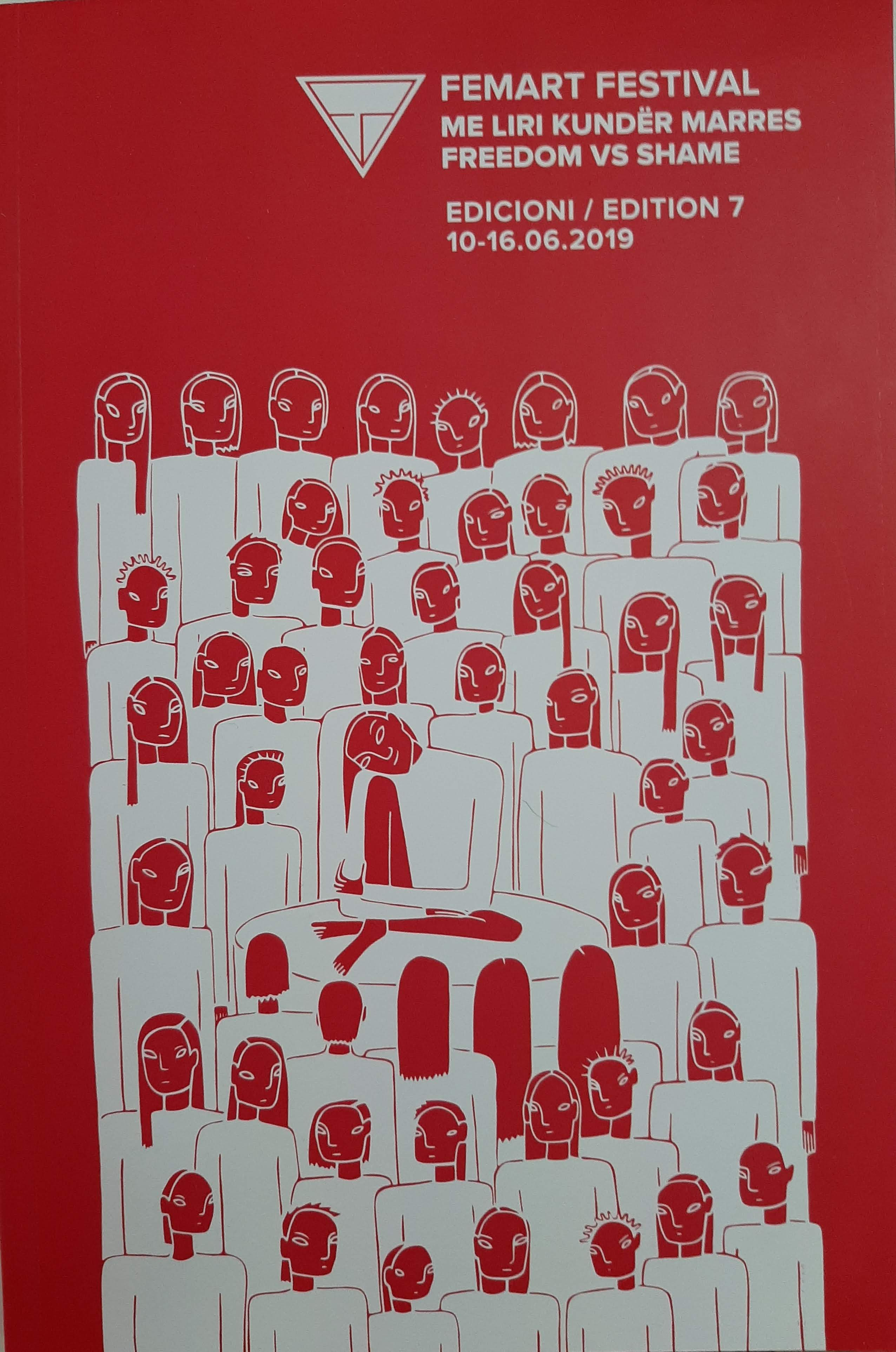 Femart Festival is a women artists and activist regional festival held in Kosovo.